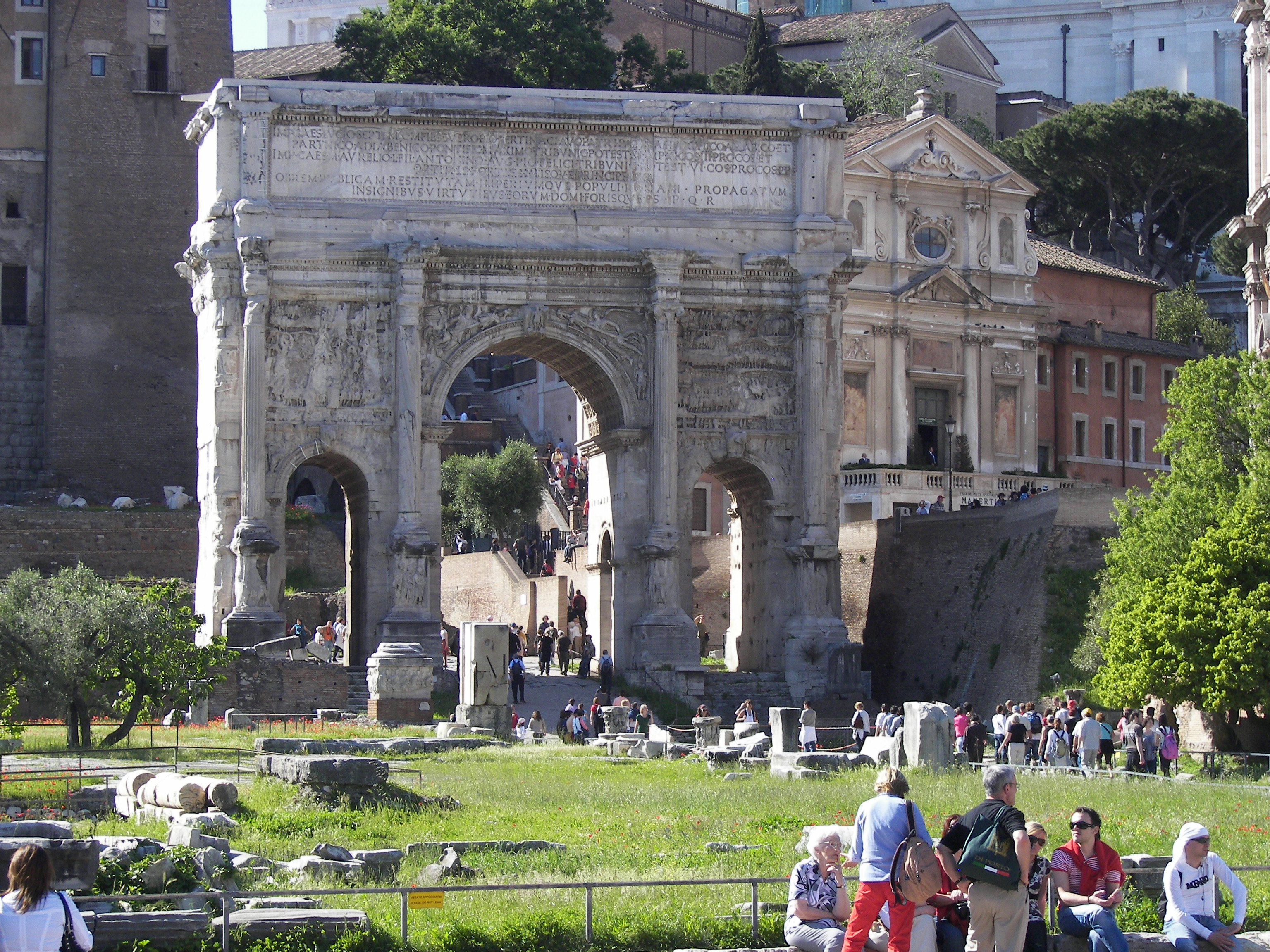 The Arch of Septimius Severus in the Forum Romanum in Rome. The inscription is catalogued as CIL VI 1033 (cf. VI 36881). Behind the arch to the right is the church of San Giuseppe dei Falegnami with Carcere Mamertino at ground level. Behind to the left is the Tabularium.